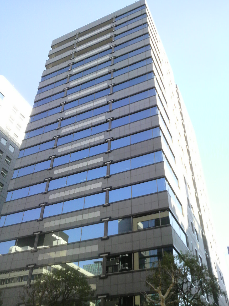 NTT PC